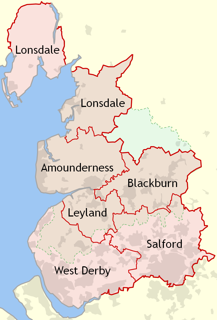 The ancient hundreds of Lancashire, England. The dotted green line indicates the modern-day boundary of Lancashire since 1974.